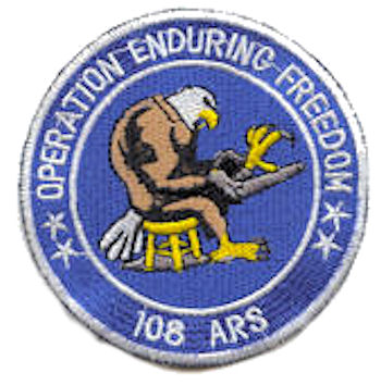 108th Expeditionary Air Refueling Squadron - Operation Enduring Freedom emblem